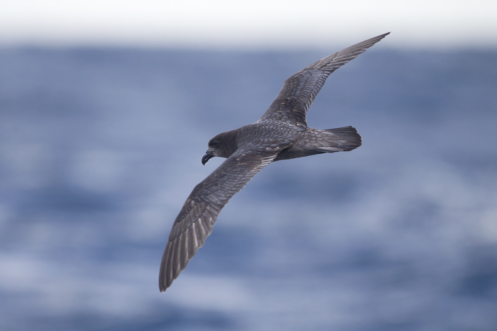 Providence Petrel (Pterodroma solandri), east of Port Stephens, New South Wales, Australia